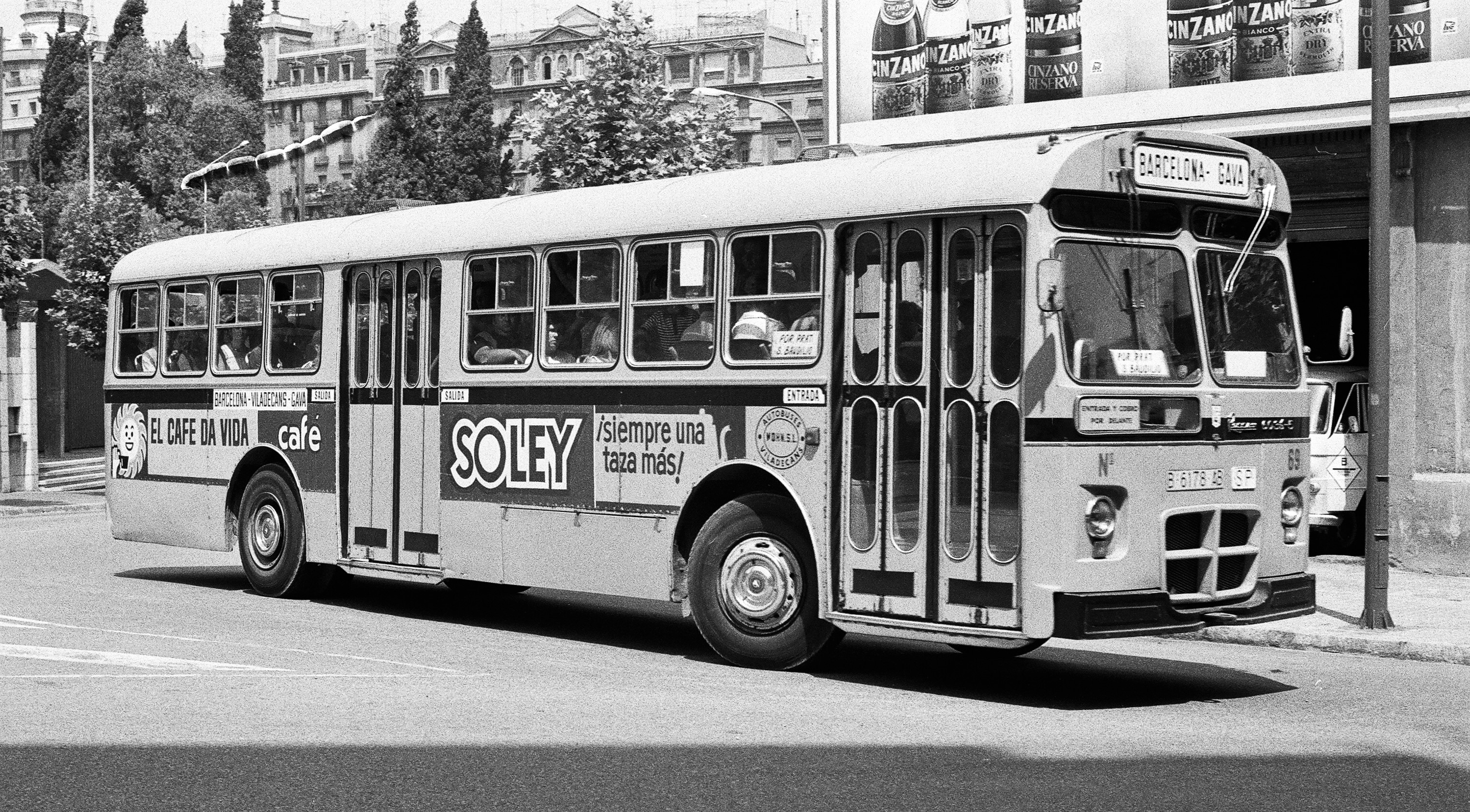 The Pegaso 6035 bus number 69 from Mohn S.L. at the intersection of Lleida and Tamarit streets in Barcelona.